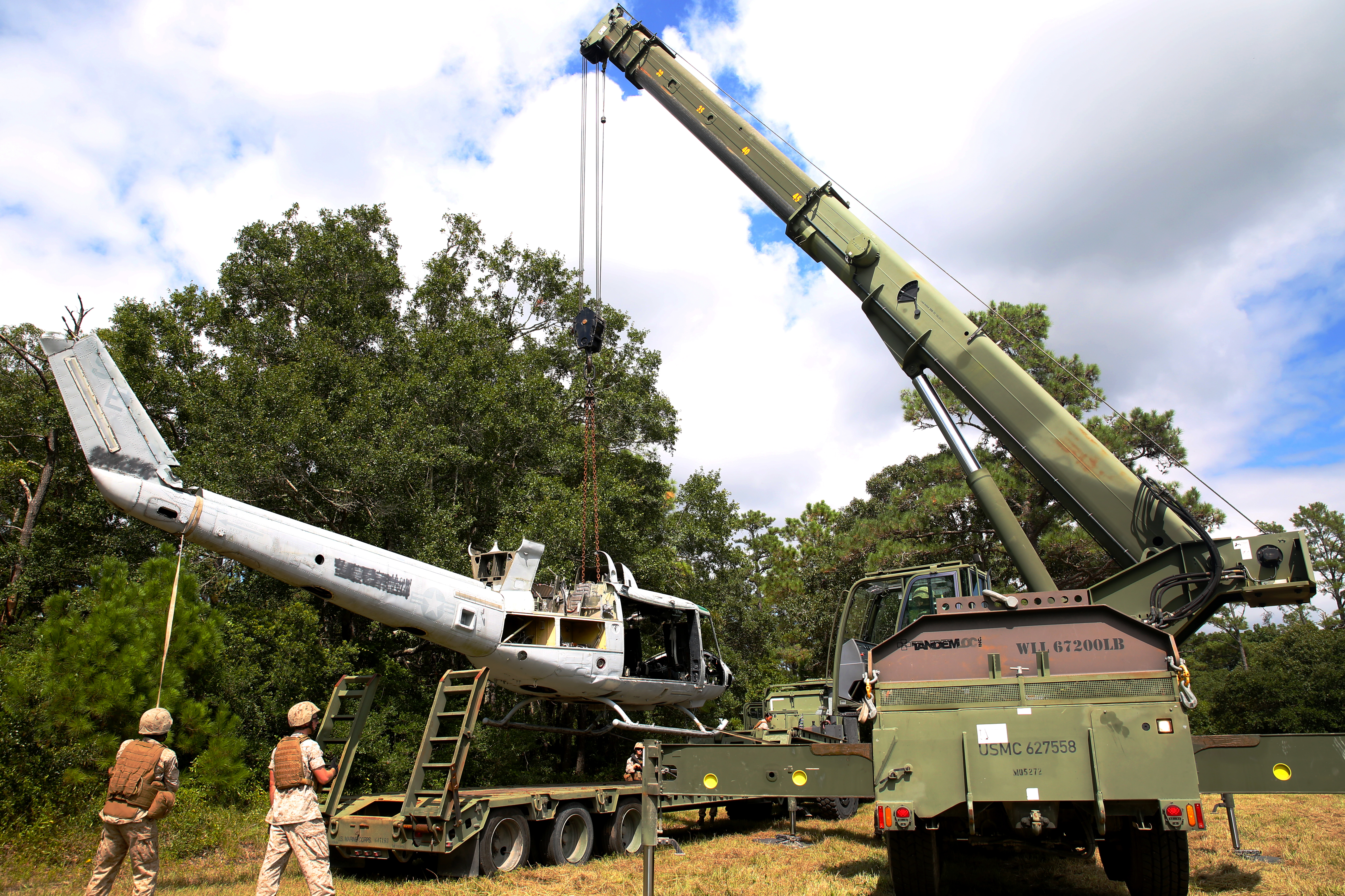 A Terex-Demag MAC 50 All-terrain crane, operated by Marines of Marine Wing Support Squadron 272, lifts a UH-1N Huey helicopter onto a trailer during a simulated aircraft recovery exercise aboard Marine Corps Base Camp Lejeune, N.C., Sept. 10, 2014. (Marine Corps photo by LCpl. Preston McDonald/Released)